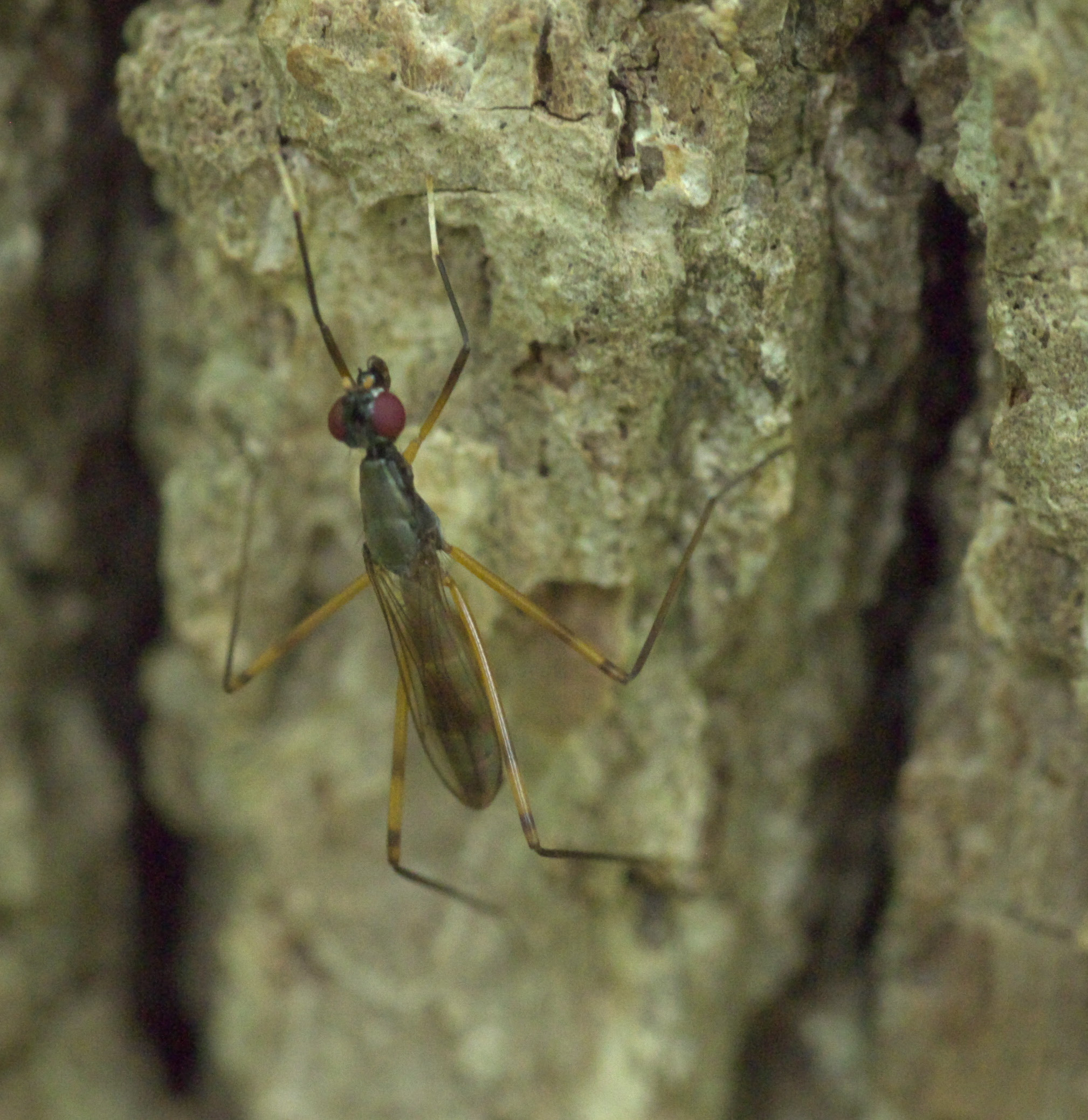 Rainieria antennaepes, Family: Stilt-legged Flies, ID Confidence: 98